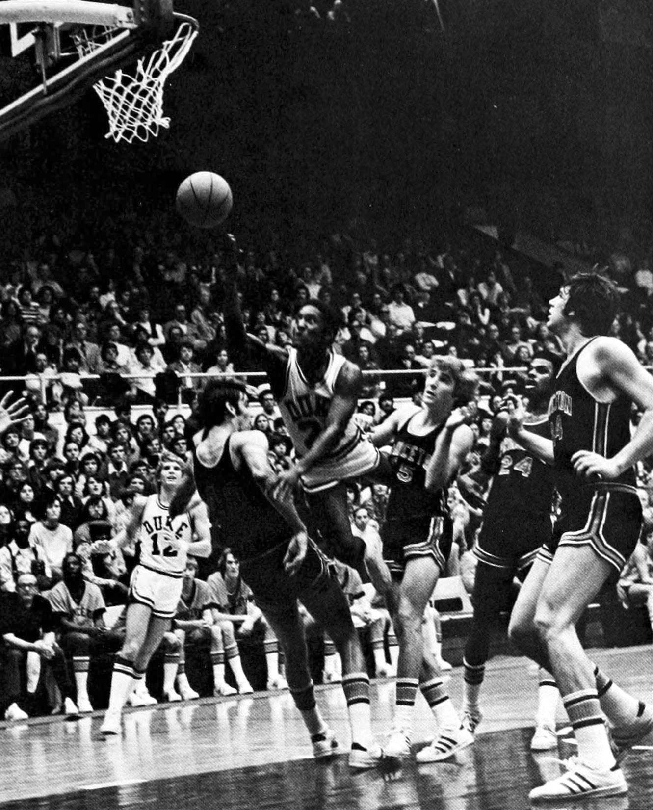 A men's basketball game featuring Princeton Tigers at Duke Blue Devils in Cameron Indoor Stadium on January 25, 1975. Scanned from the 2nd volume of the 1975 edition of Chanticleer, the yearbook of Duke University